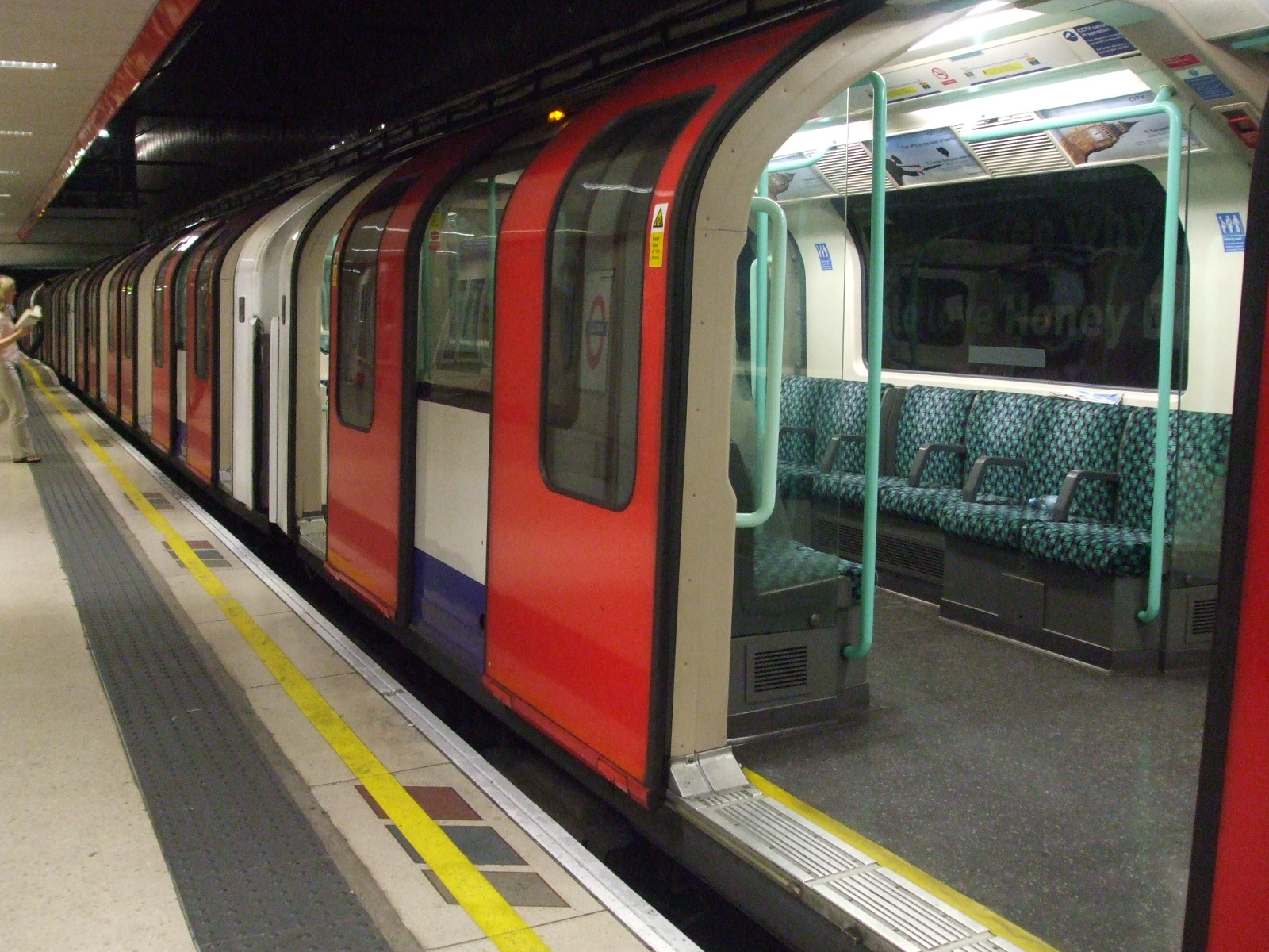 Waterloo & City line train towards Bank calling at Waterloo tube station. The Waterloo and City line opened in 1898 and is the shortest line on the network, having only two stations - Waterloo and Bank. It is also one of only two lines to be entirely underground, the other being the Victoria line. It was part of the British Rail network until 1994, when operation was transferred to London Underground. Since 2010 it has been the only London Underground line to use 4 coach trains. It is intended for commuters who have their workplaces in the City of London, and for this reason it does not operate on Sundays or public holidays except in exceptional circumstances (e.g. in 2012 during the Summer Olympics). It is currently operated by 1992 Stock, which was introduced in 1993 and is also used on the Central line (though unlike Central line trains, Waterloo and City line trains do not feature ATO). The 1992 Stock is not expected to last for the forseeable future, and London Underground plans to replace these trains with the New Tube for London, which will have walk-through carriages and air conditioning, unlike older deep level tube lines.